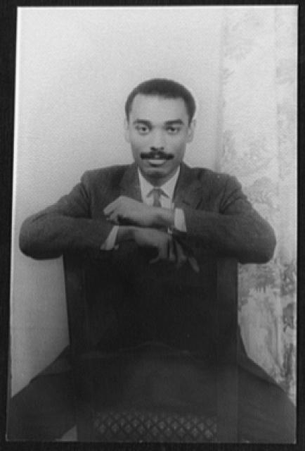 Title: Portrait of John Carter Abstract: 1 photographic print : gelatin silver.